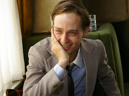 Tom Schilling drinking coffee in Vienna.